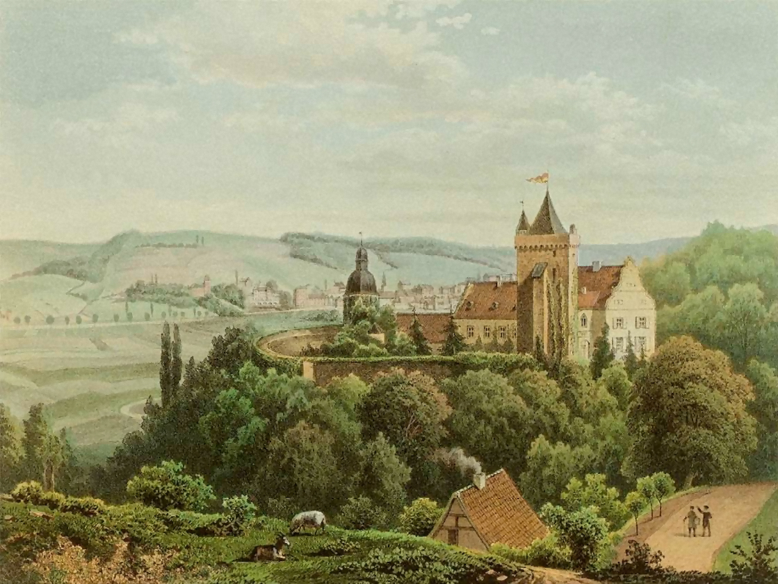 Litograph of Landsberg Castle